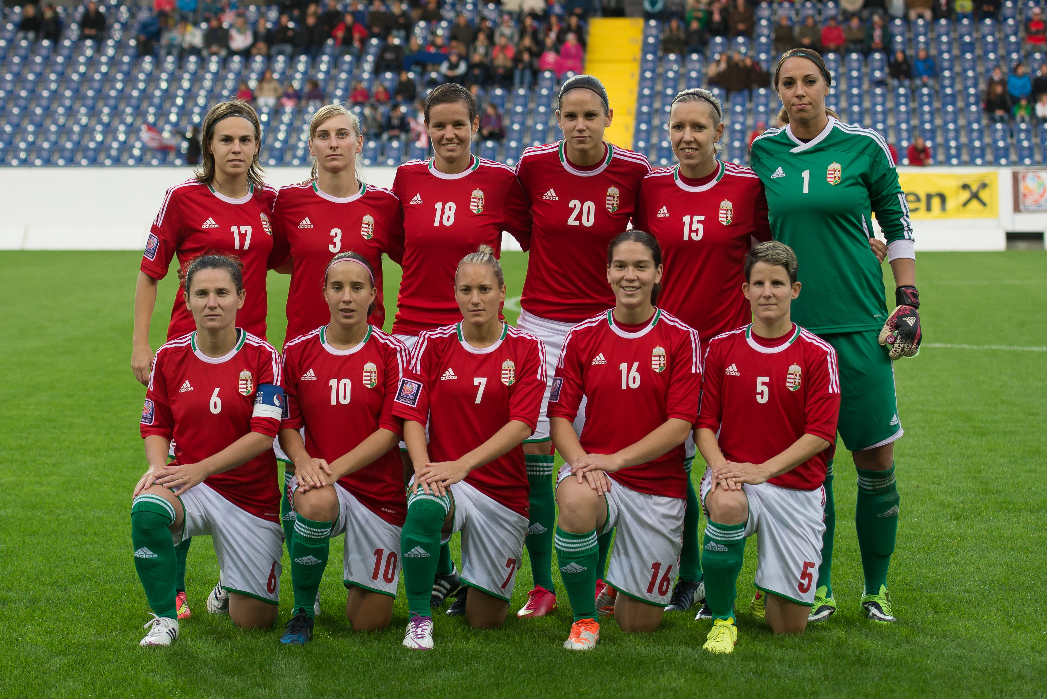 FIFA Women's World Cup 2015: Qualifying Round St. Pölten, 13.09.2014 Nationalteam Ungarn